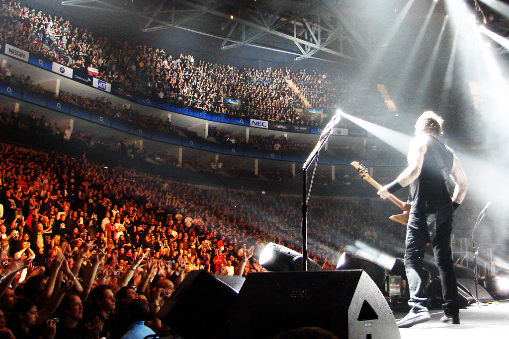 Metallica - Death Magnetic Launch Party - 02 Arena, London, 15/09/08